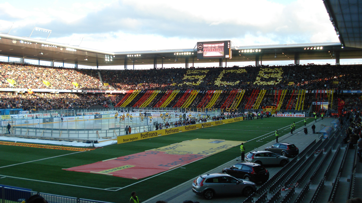 Icehockey game in front of 30.000 people between the SCL Tigers and SC Bern inside the Stade de Suisse, Wankdorf Bern.